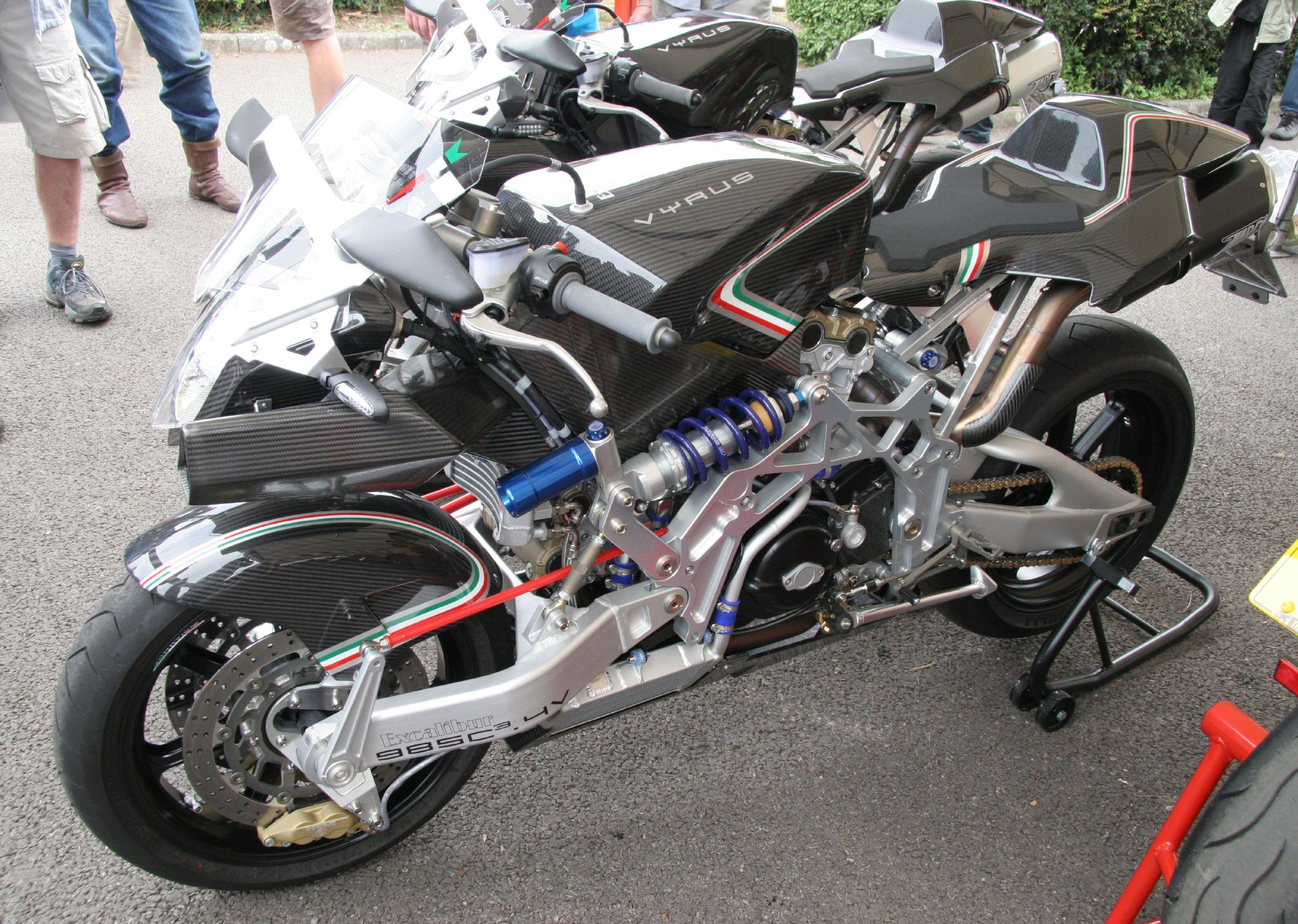 Vyrus 985 C4 4V at Goodwood Festival Of Speed 2007